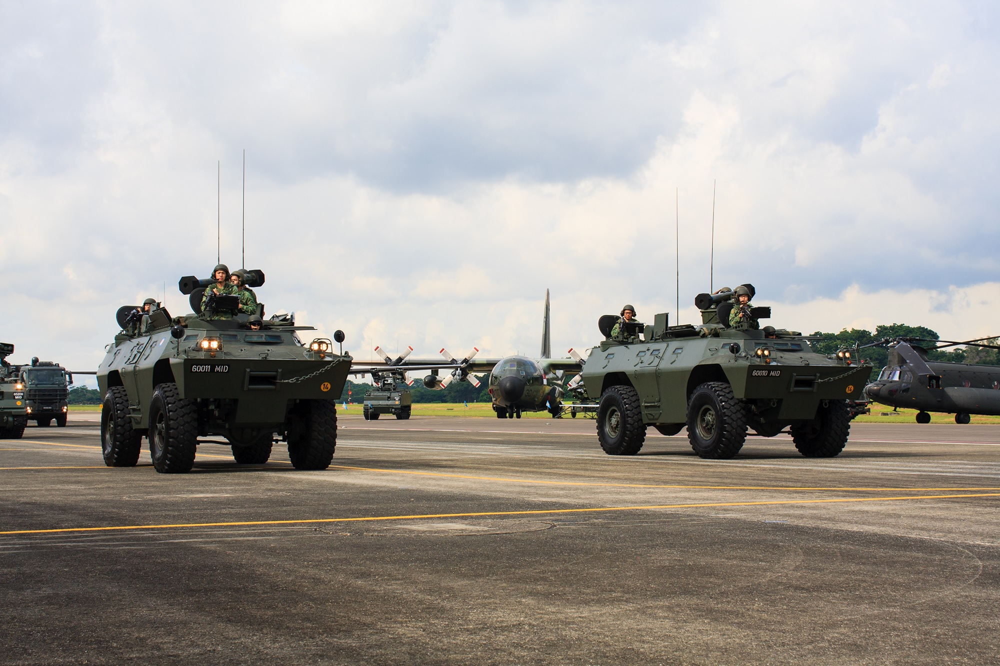 Two Republic of Singapore Air Force Cadillac Gage V-200 armored cars with RBS-70 SHORAD air-defence systems.